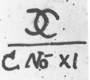 Porzellanmarke der Manufaktur Chely in Braunschweig (1745–1757)